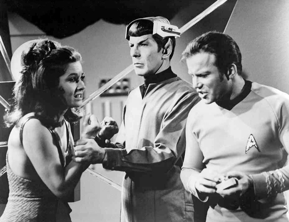 Scene from the Star Trek episode "Spock's Brain". From left-Marj Dusay (Kara), Leonard Nimoy (Spock) and William Shatner (Kirk). In this scene, Kirk commands Spock to grab Kara's wrist and deactivate her bracelet; she's the one who stole Spock's brain. This makes Kara powerless.